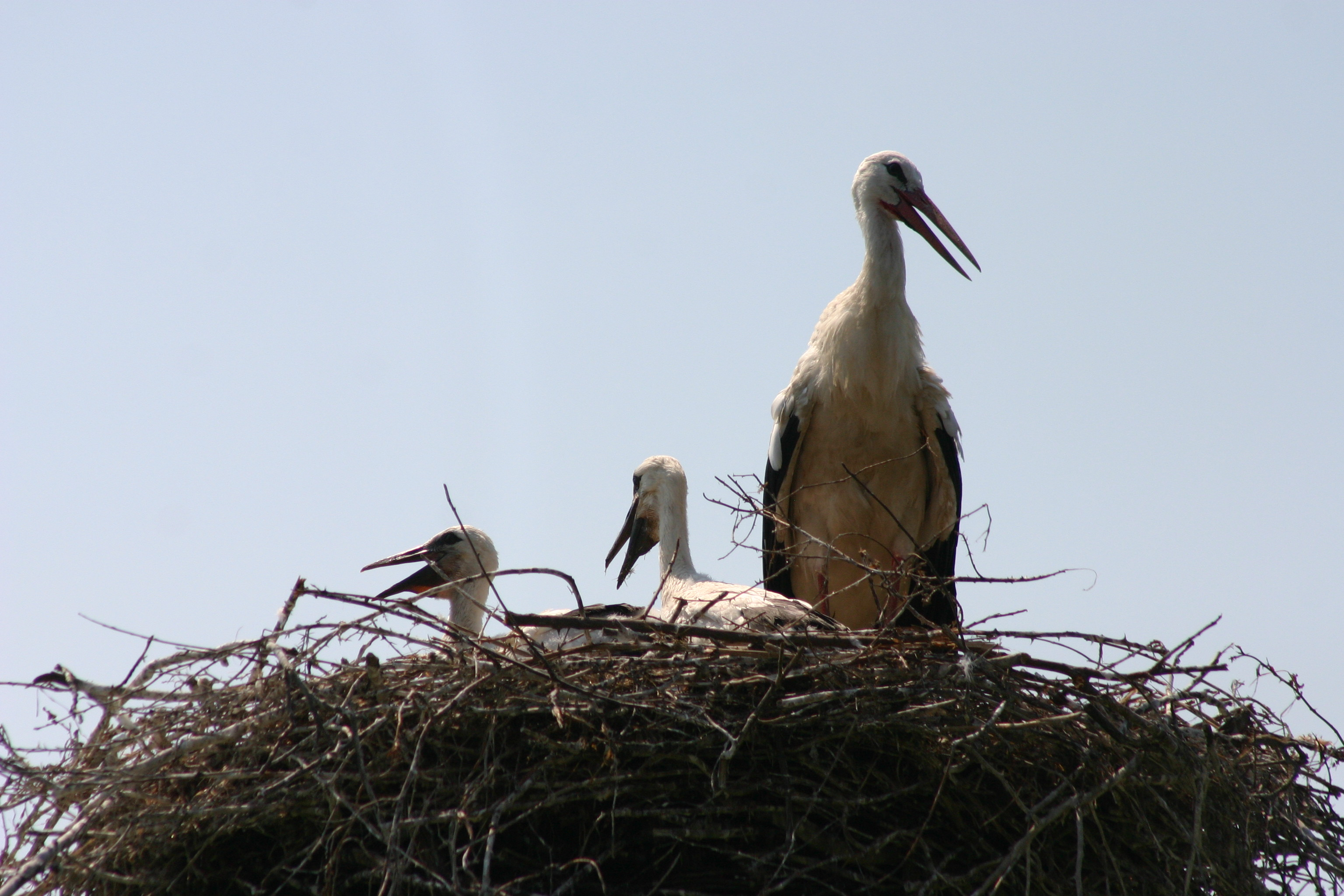 2 young stork born in 2010 Hedeper, Germany